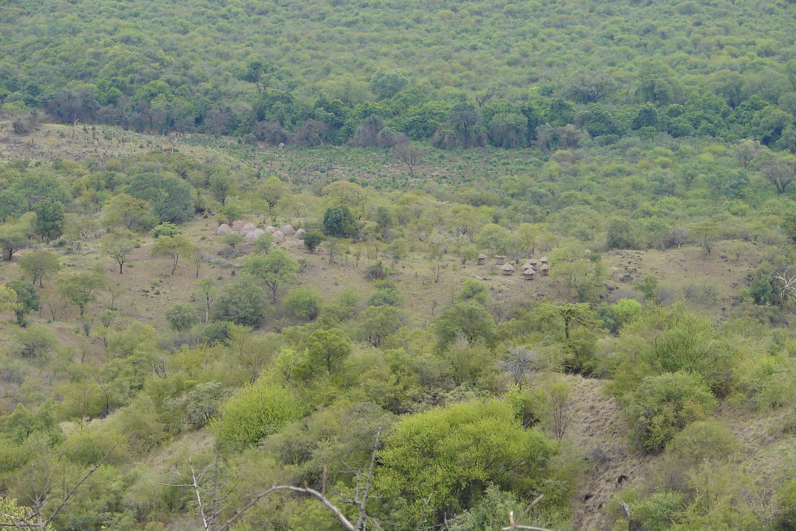 Hidden villages in Mago National Park (Ethiopia)